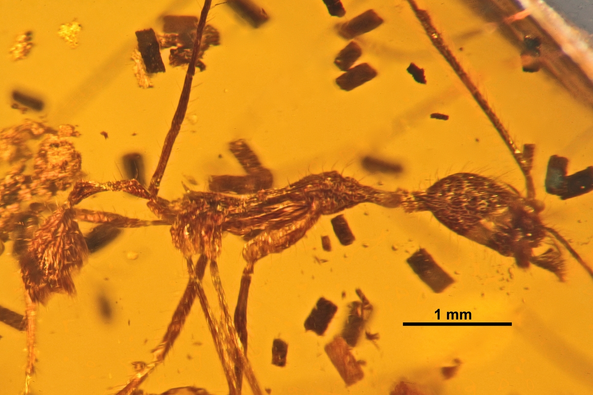 Profile view of the Aphaenogaster amphioceanica holotype. Specimen " SMNSDO4629"